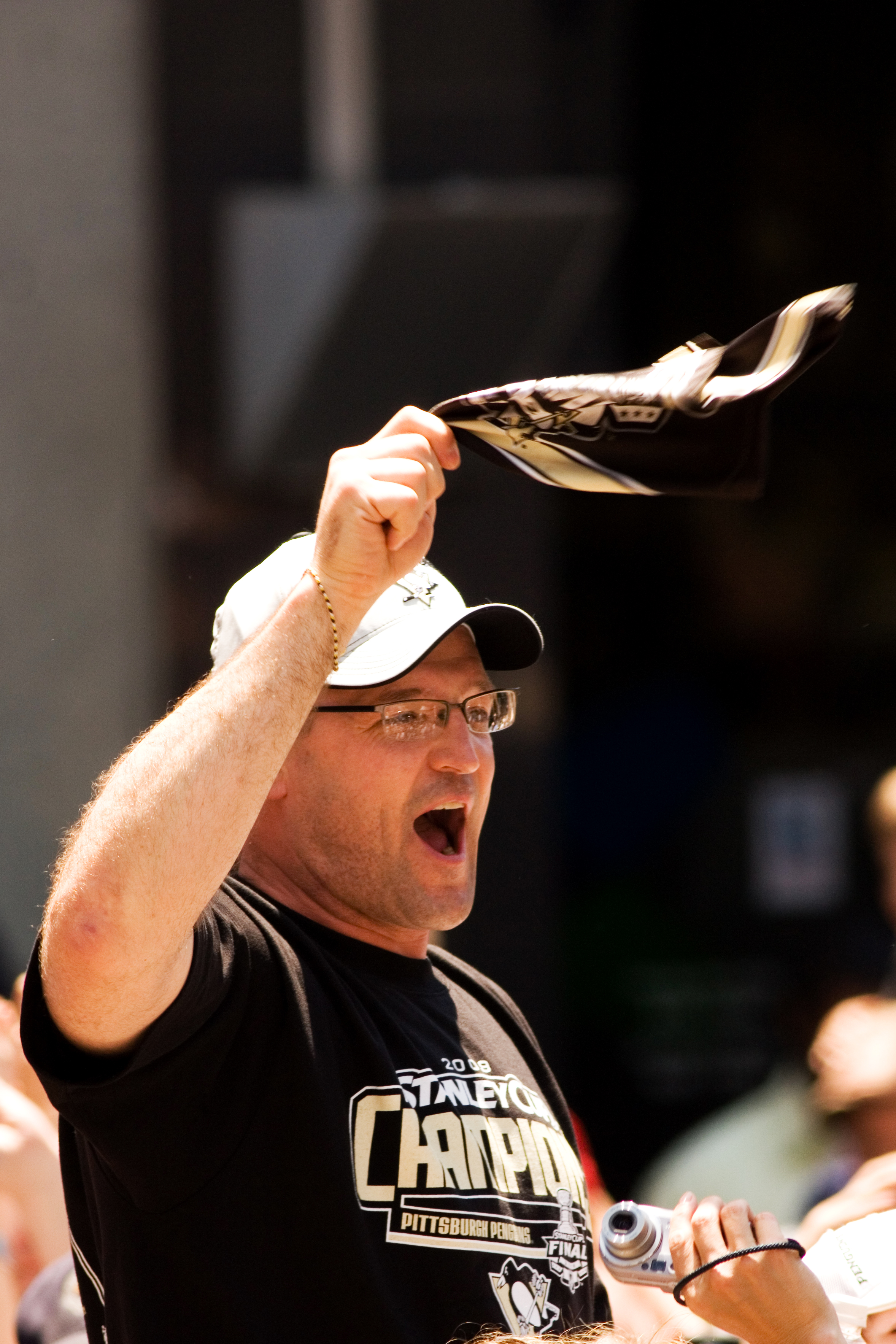 Dan Bylsma coach of the Pittsburgh Penguins in 2009.